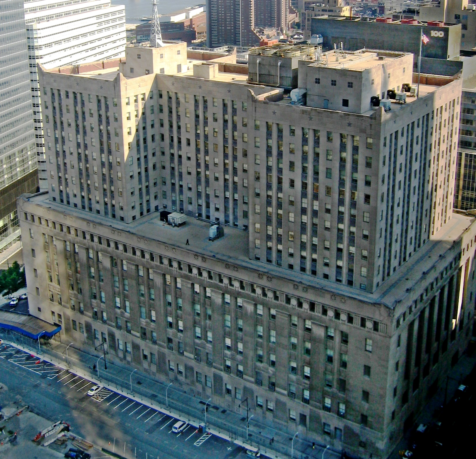 90 Church Street Post Office building, designed by Cross & Cross, Pennington, Lewis & Mills, and Lewis A. Simon and built in 1935